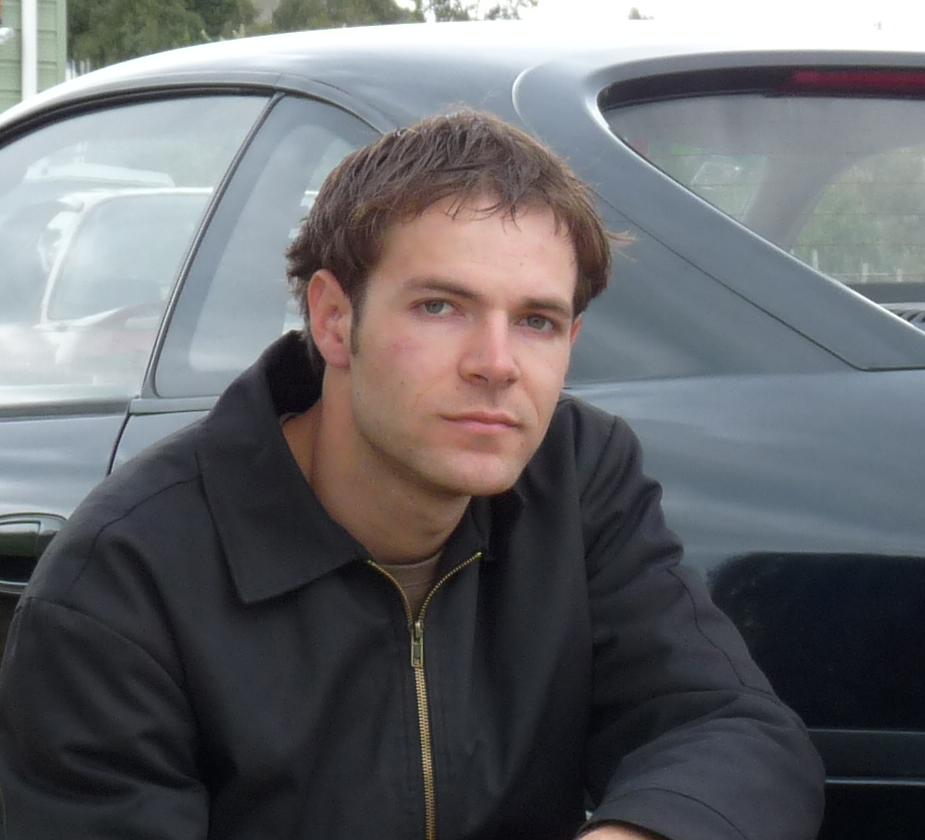 David Jubermann